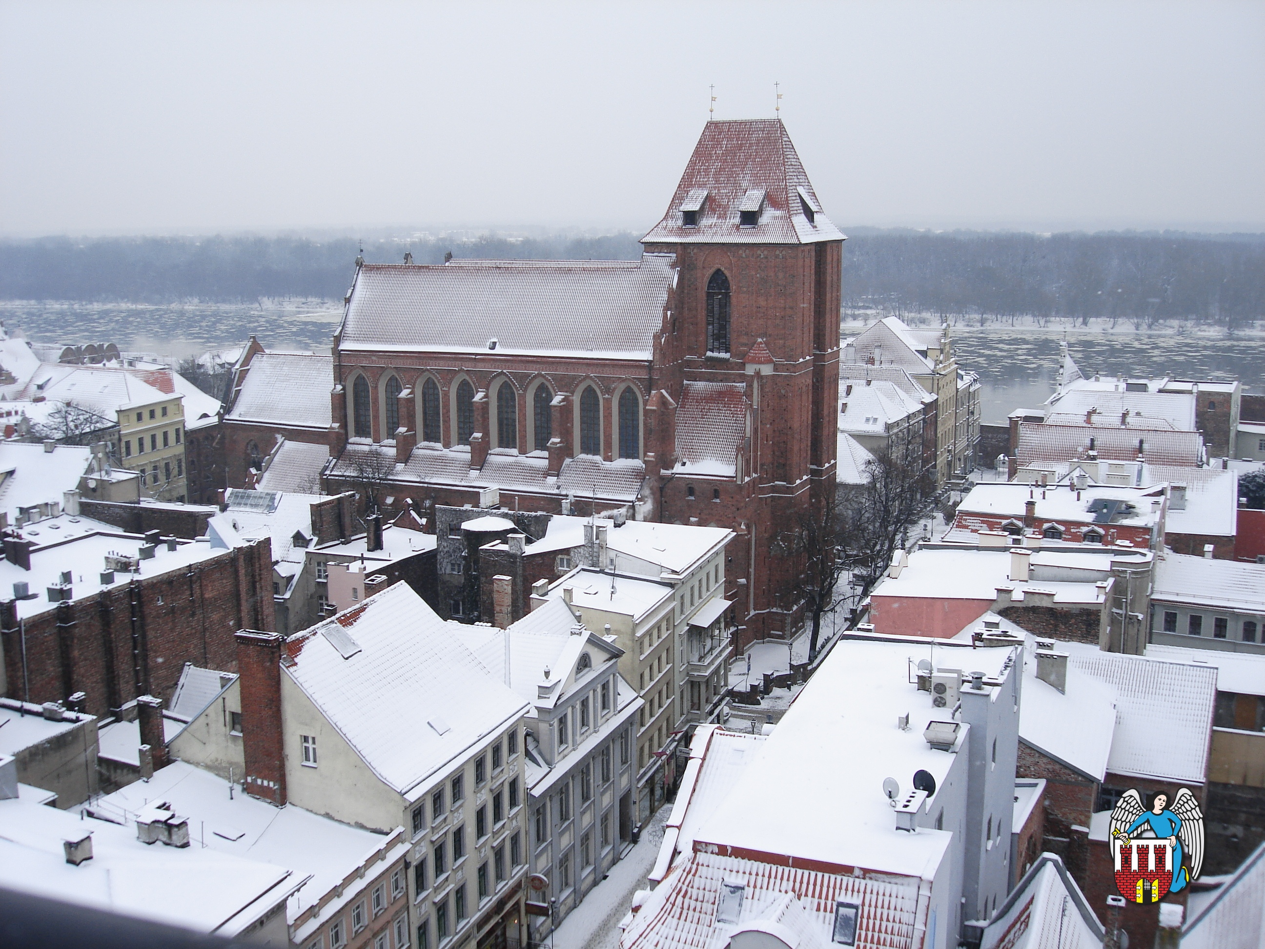 Thorn im Winter 2013 - Basilica